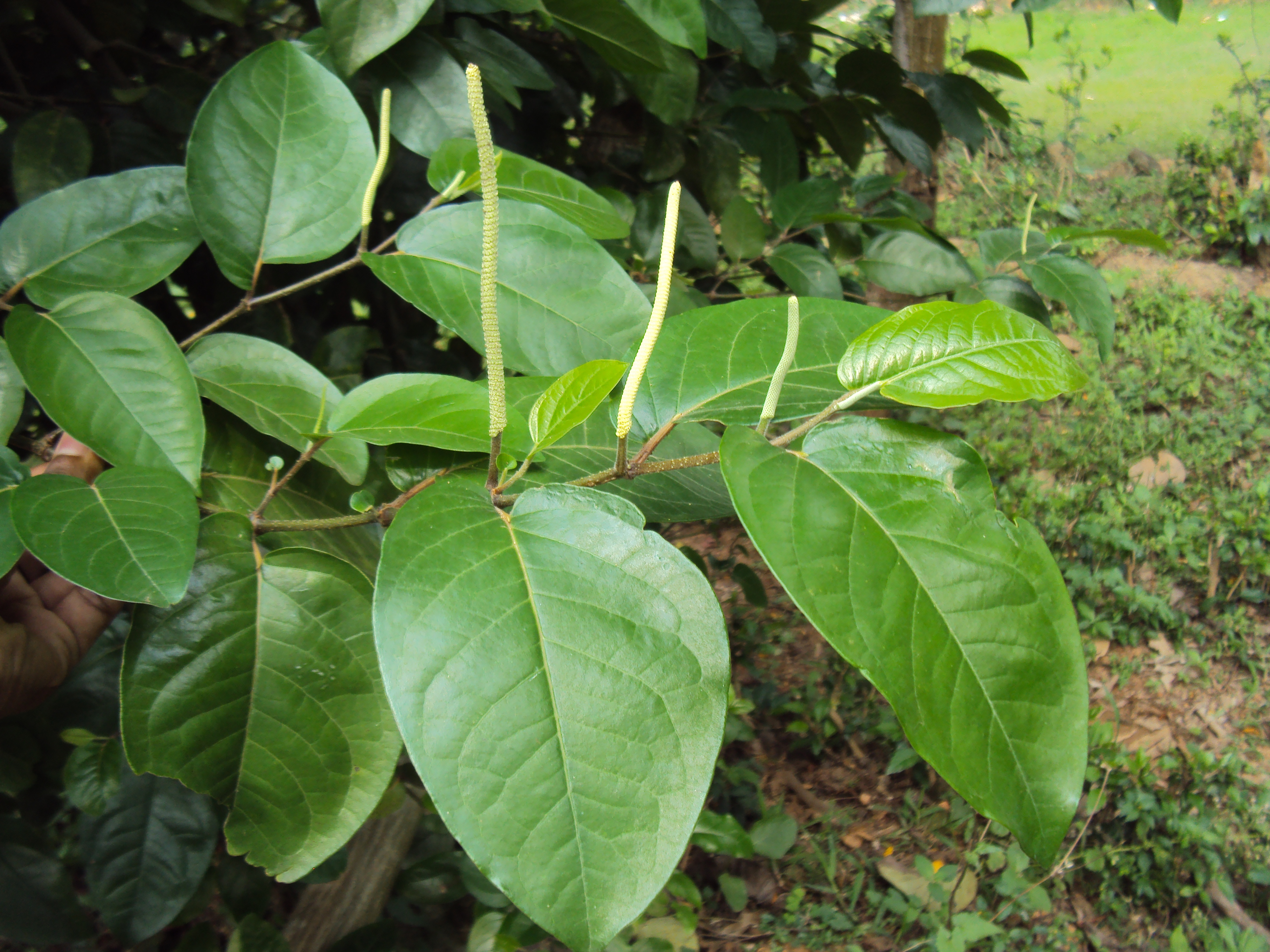 Piper colubrinum